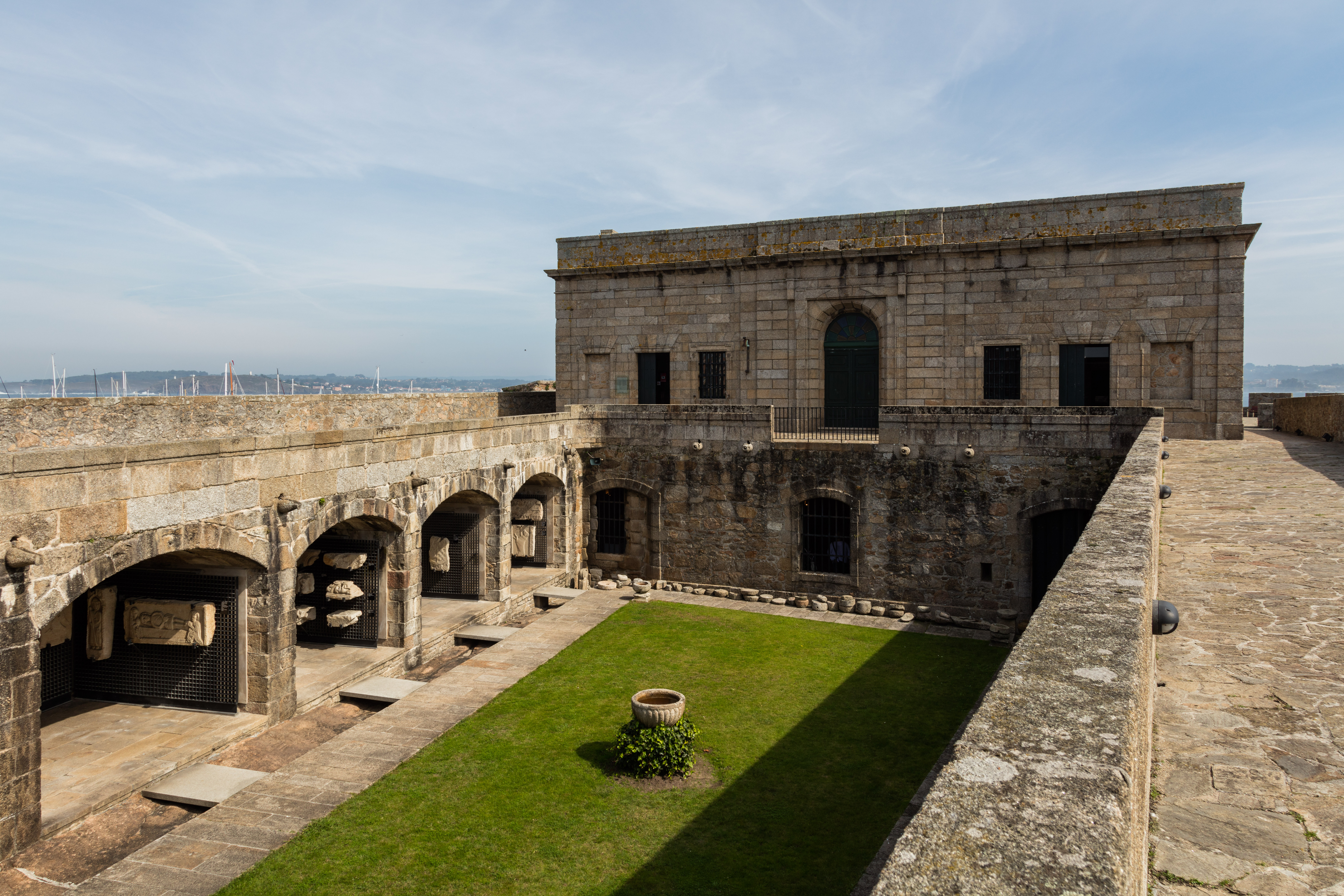 Santo Antón Castle, A Coruña, Spain